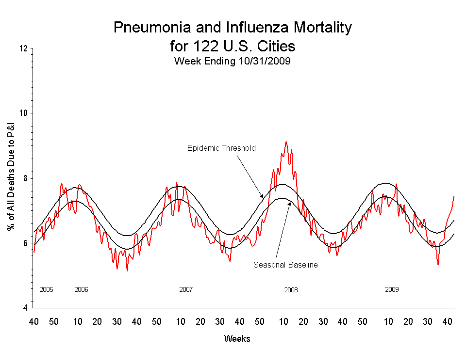 Pneumonia and influenza mortality for 122 US cities, 4 years through week ending October 31, 2009. This time series shows the seasonality of seasonal influenza, and that during the 2007-2008 season influenza exceeded the US epidemic threshold.